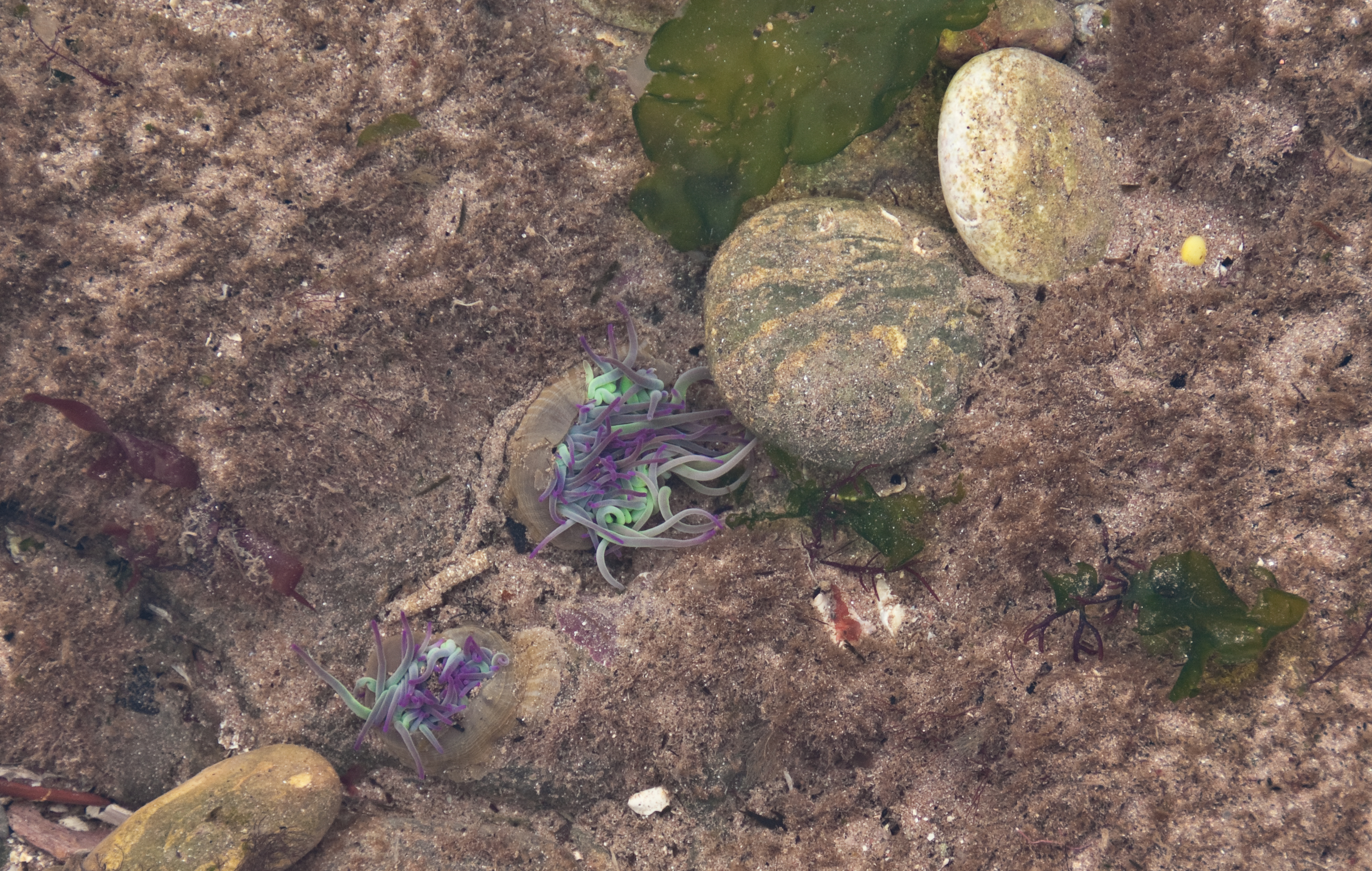 Snakelocks anemones (Anemonia viridis was Anemonia sulcata) in a rock pool in Torbay, Devon, UK.